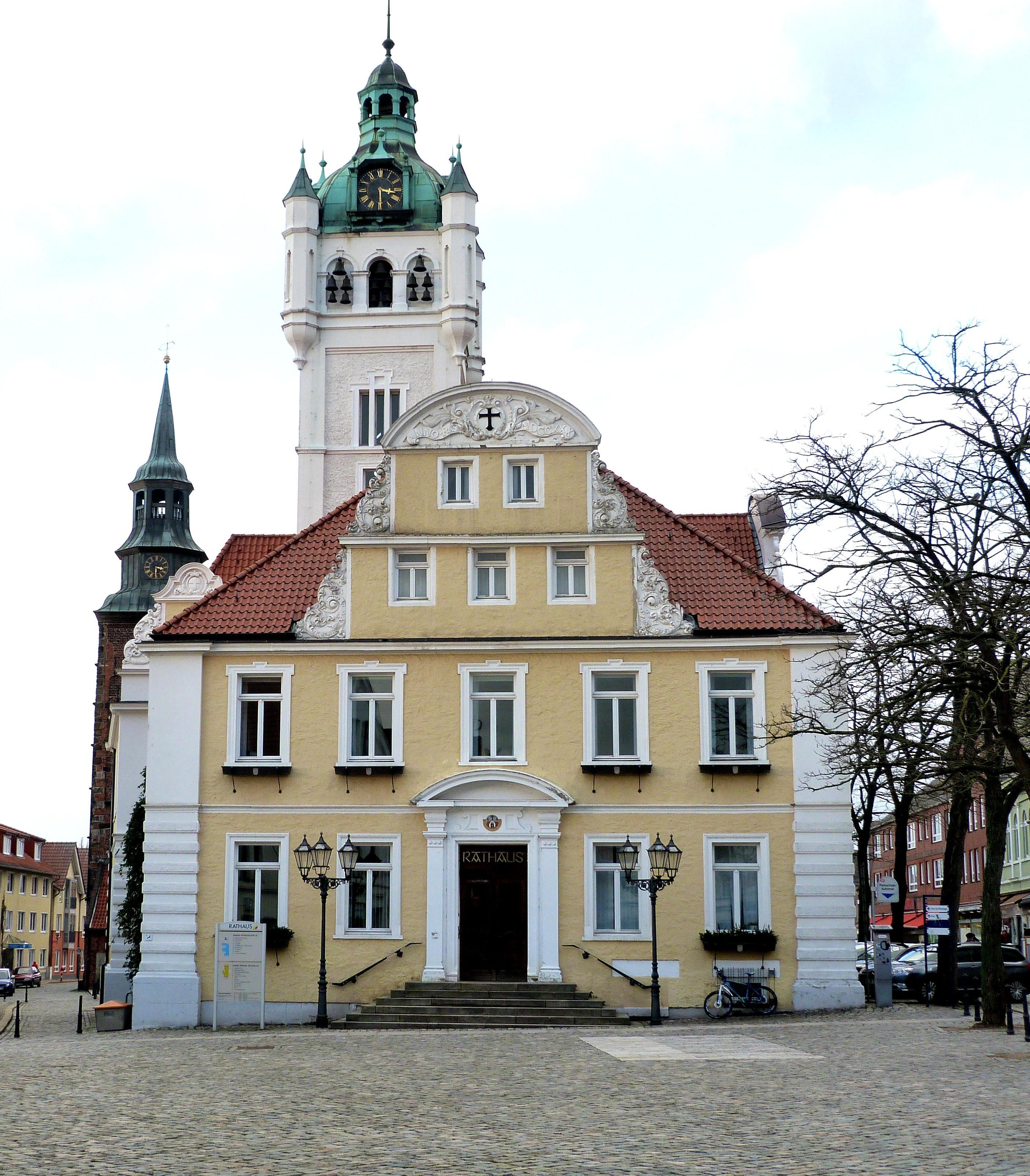 The townhall in Verden, Lower Saxony, Germany.